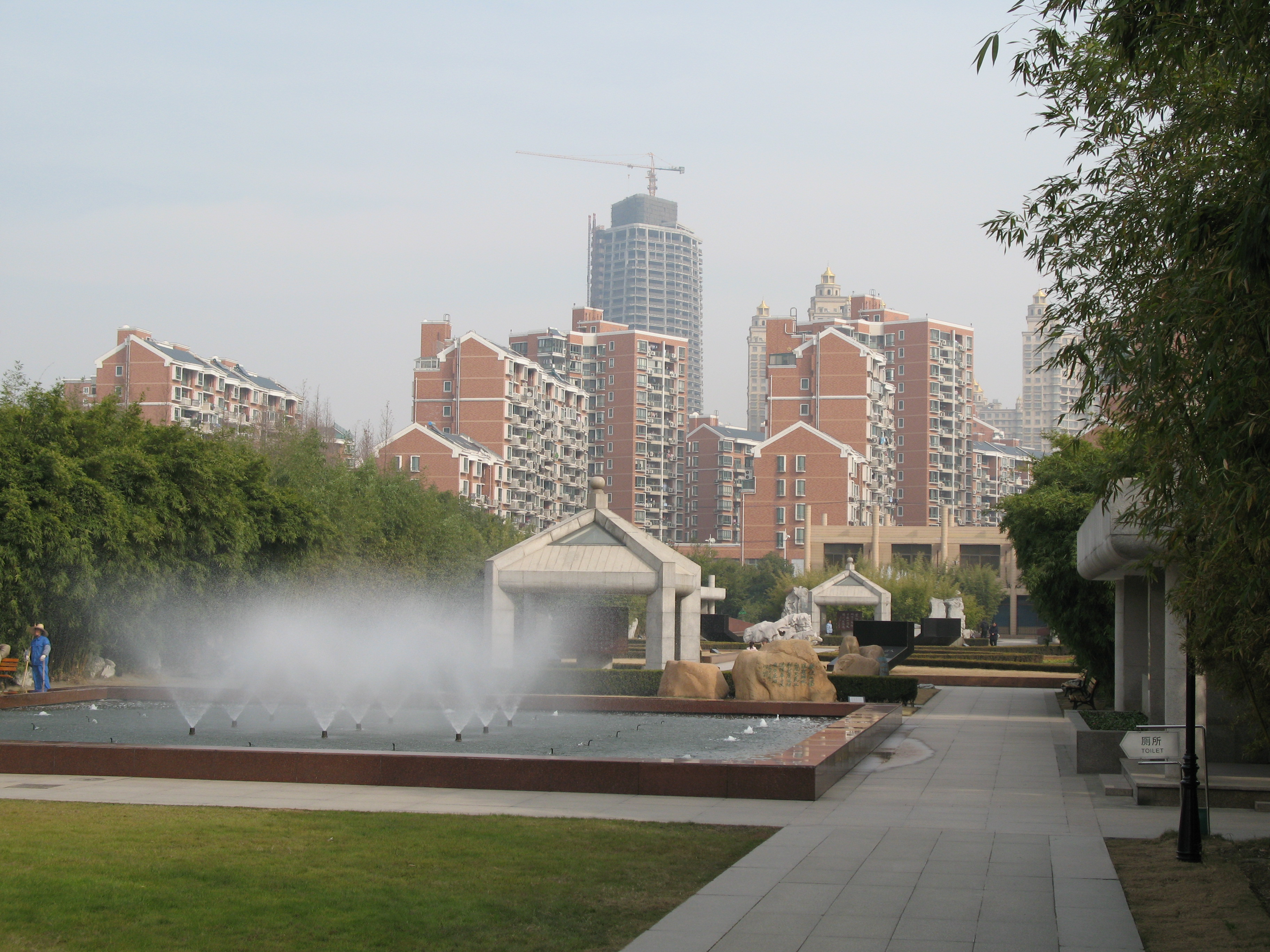 Longhua Revolutionary Martyr's Cemetery, Items inside memorial park with new apartments in background, Shanghai